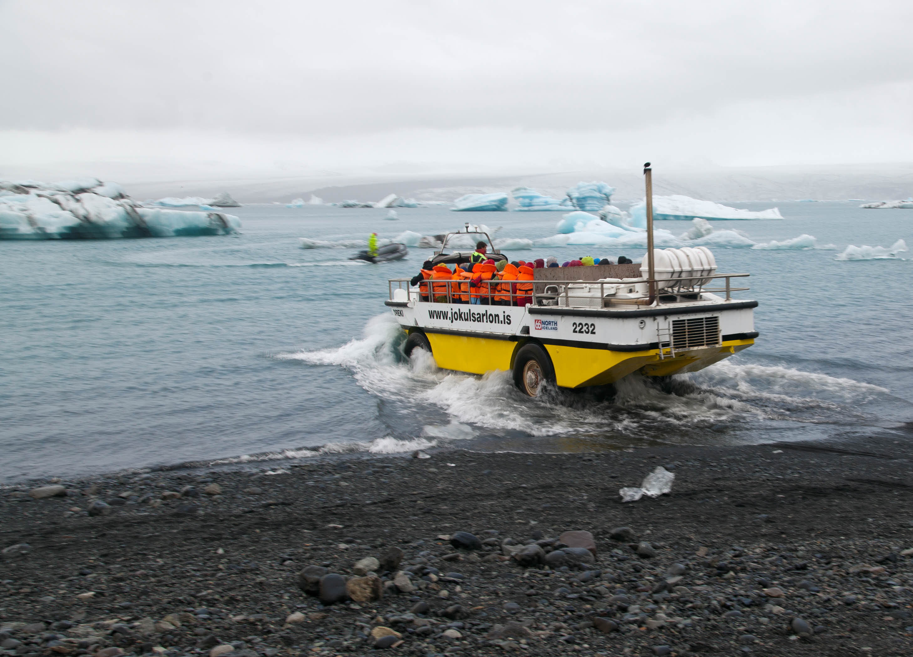 LARC V in use for tourist trips on Iceland (Jokulsarlon ice lake)